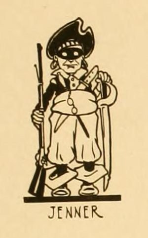 Caricature of Ernest C. Jenner, done by one of his fellow members of the Seattle Cartoonists' Club in the club's 1911 book The Cartoon; A Reference Book of Seattle's Successful Men.